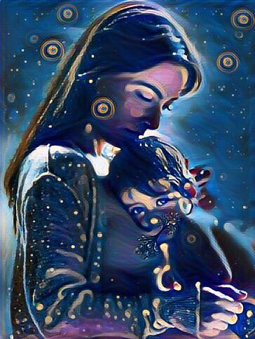 Claudia Lizaldi